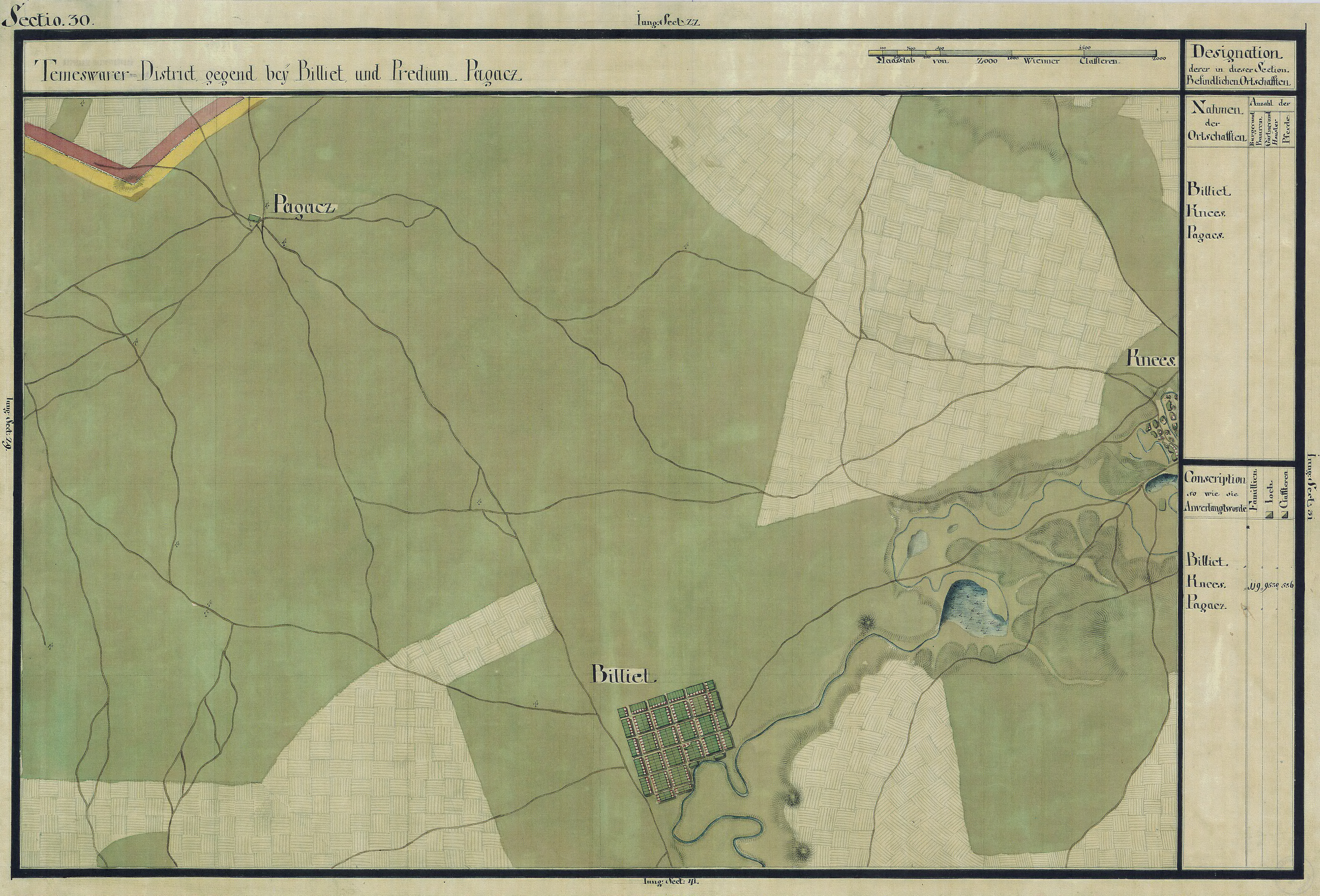 The Banat region in the cadastral maps: Josephinische Landesaufnahme, 1769-72. Josephinische Landaufnahme pg030